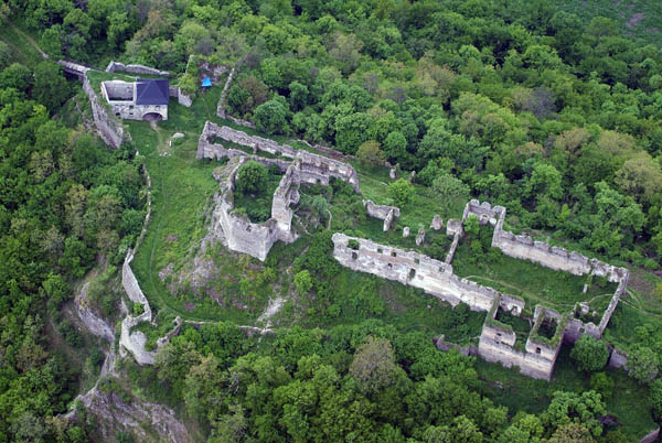 Čabradský Vrbovok, castle, Slovakia, aerial photography